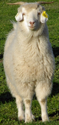 Created by Trish Esson.